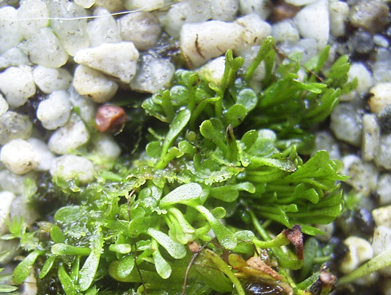 Genlisea aurea Author: Denis Barthel